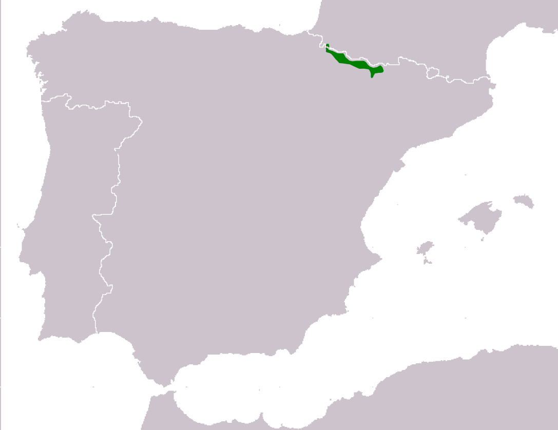 Rana pyrenaica range map.